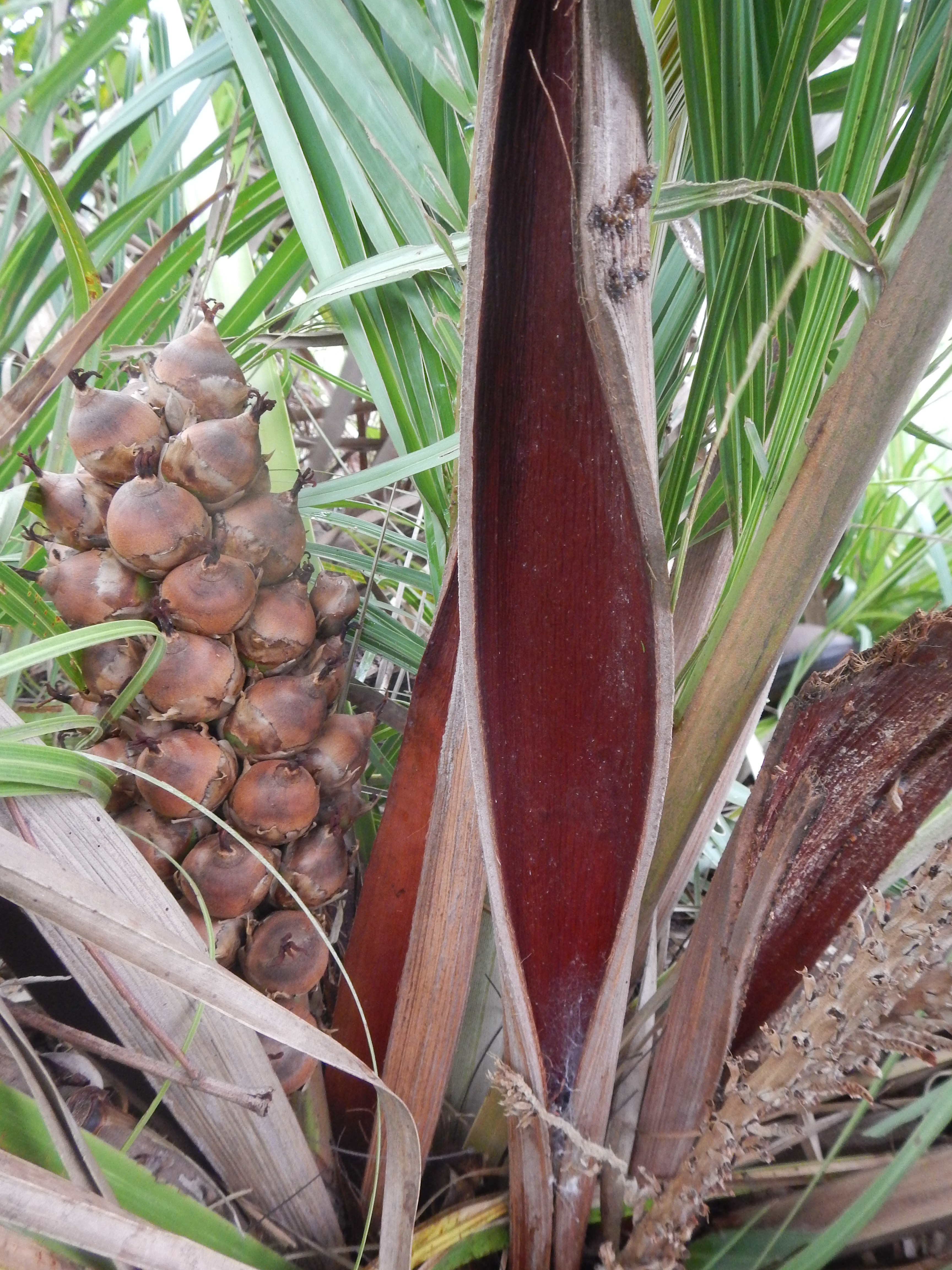 Attalea barreirensis in São Raimundo das Mangabeiras, Maranhão state, Brazil